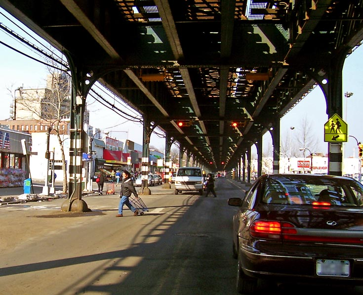 Photographed along Broadway in the Bronx by Daniel Case 2007-03-22. License plate of car in foreground obscured to protect owner's privacy.